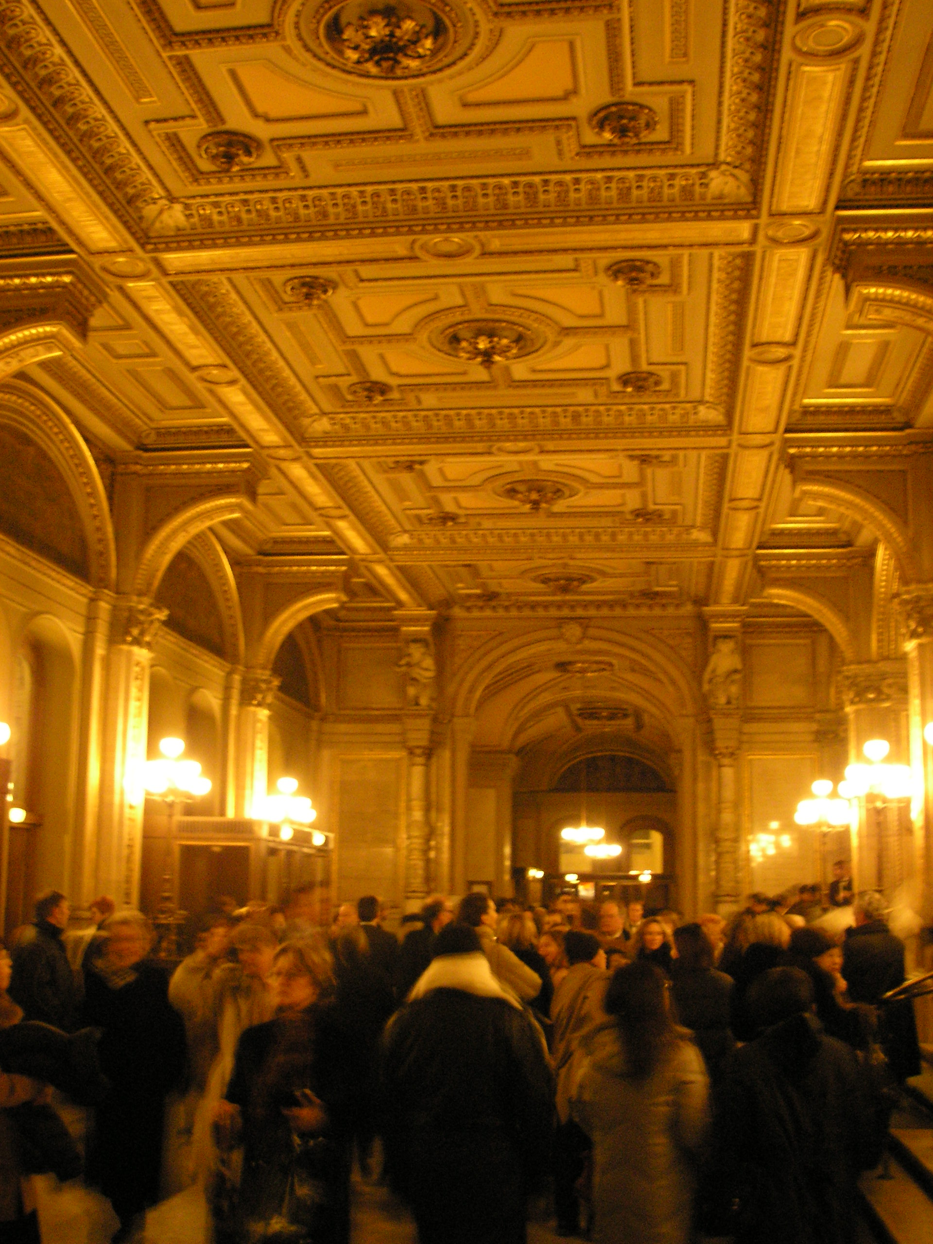 Description: View of the entrance hall in the Vienna State Opera. Foyer der Wiener Staatsoper. Source: Self-made, I release it into the public domain.